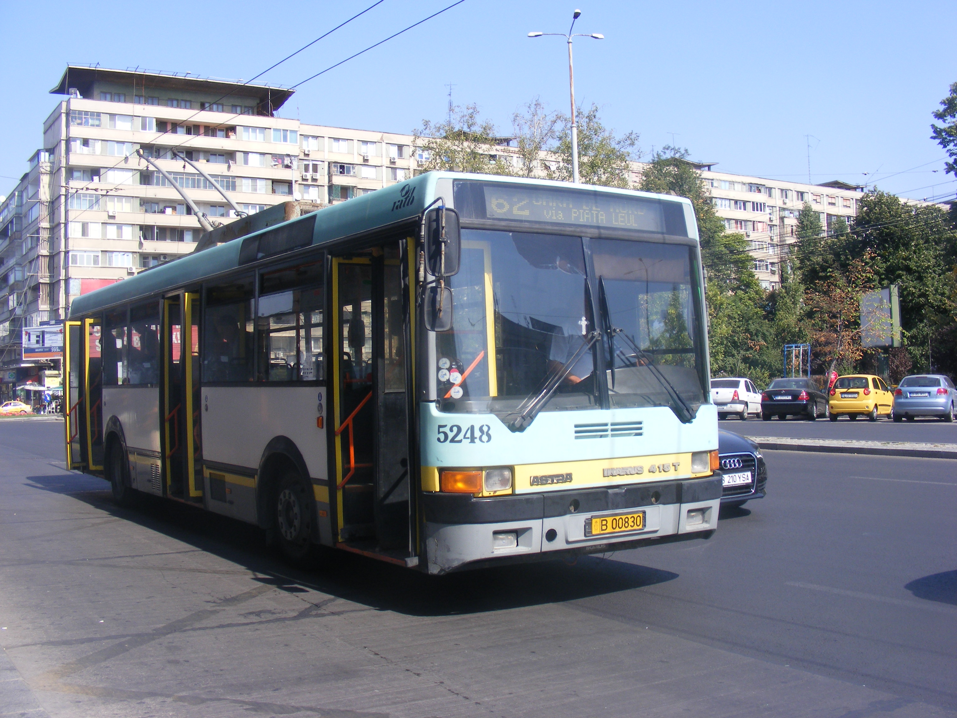 Ikarus 415T trolleybus number 5248 on route 62 at the Gara de Nord loop